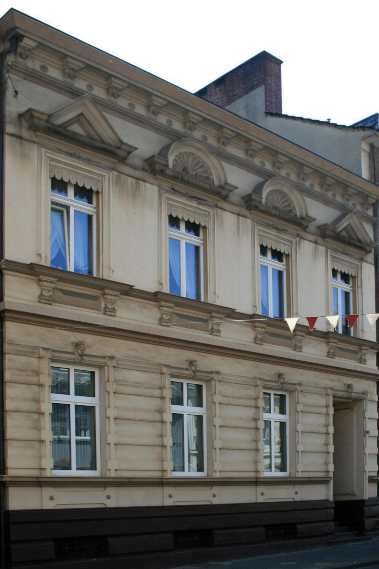 Cultural heritage monument No. K 077 in Mönchengladbach